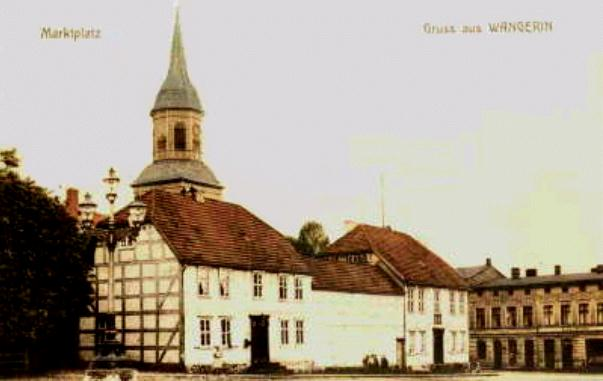 Church in Węgorzyno about 1890